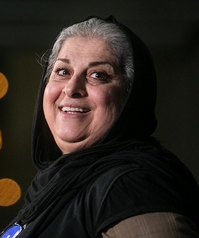 Fereshteh Taerpour